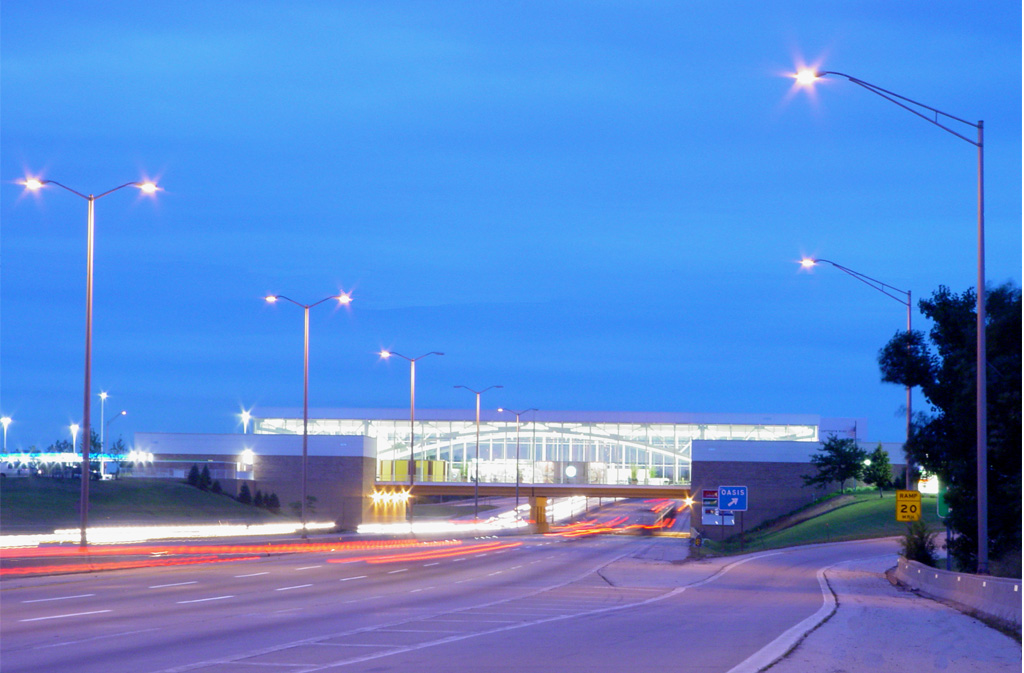 O'Hare toll oasis